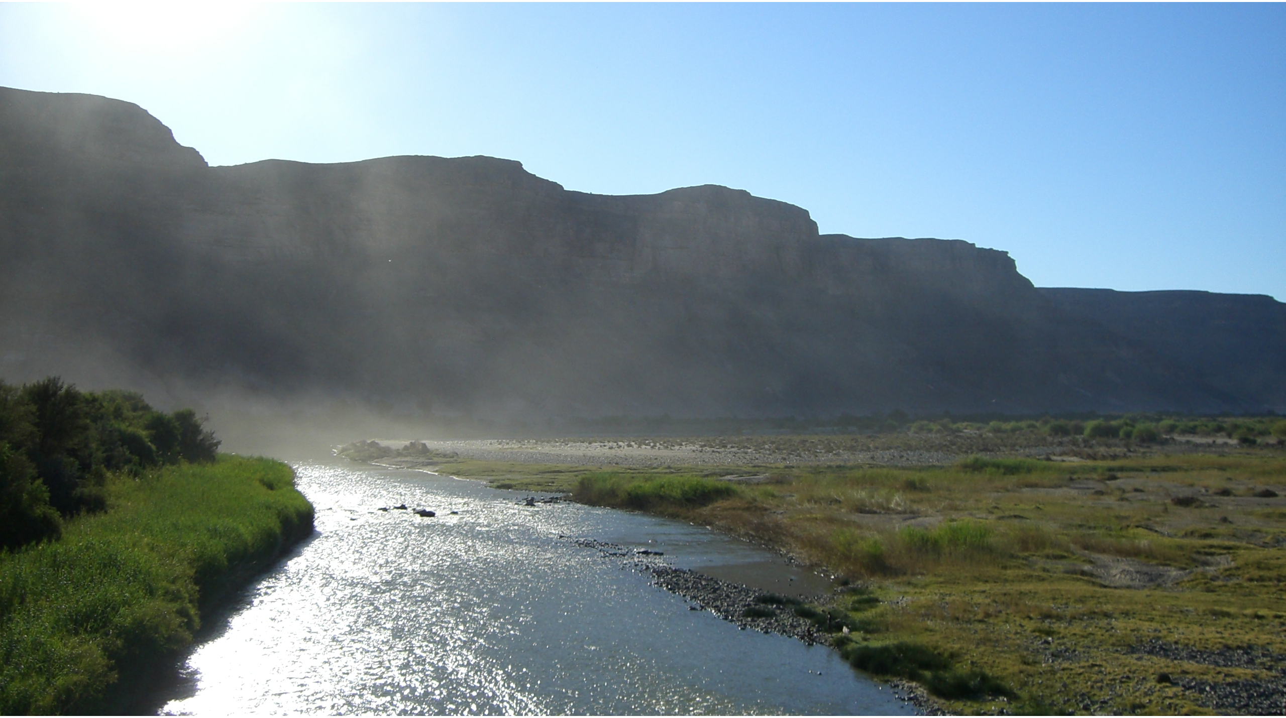 River Oranje at Noordoewer